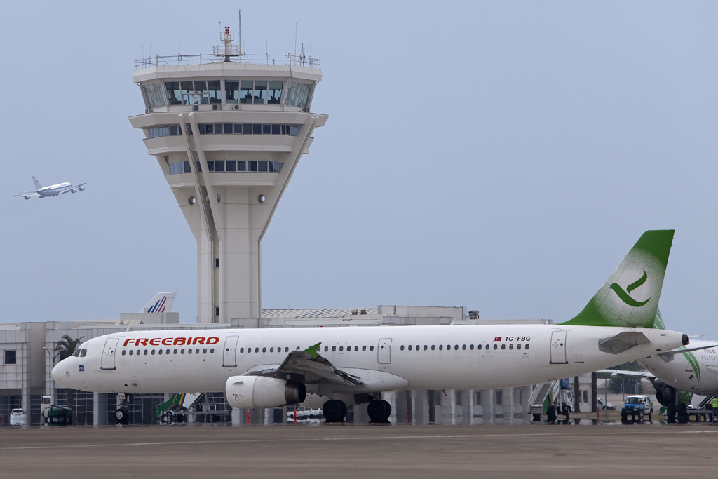 TC-FBG A321 Freebird and tower